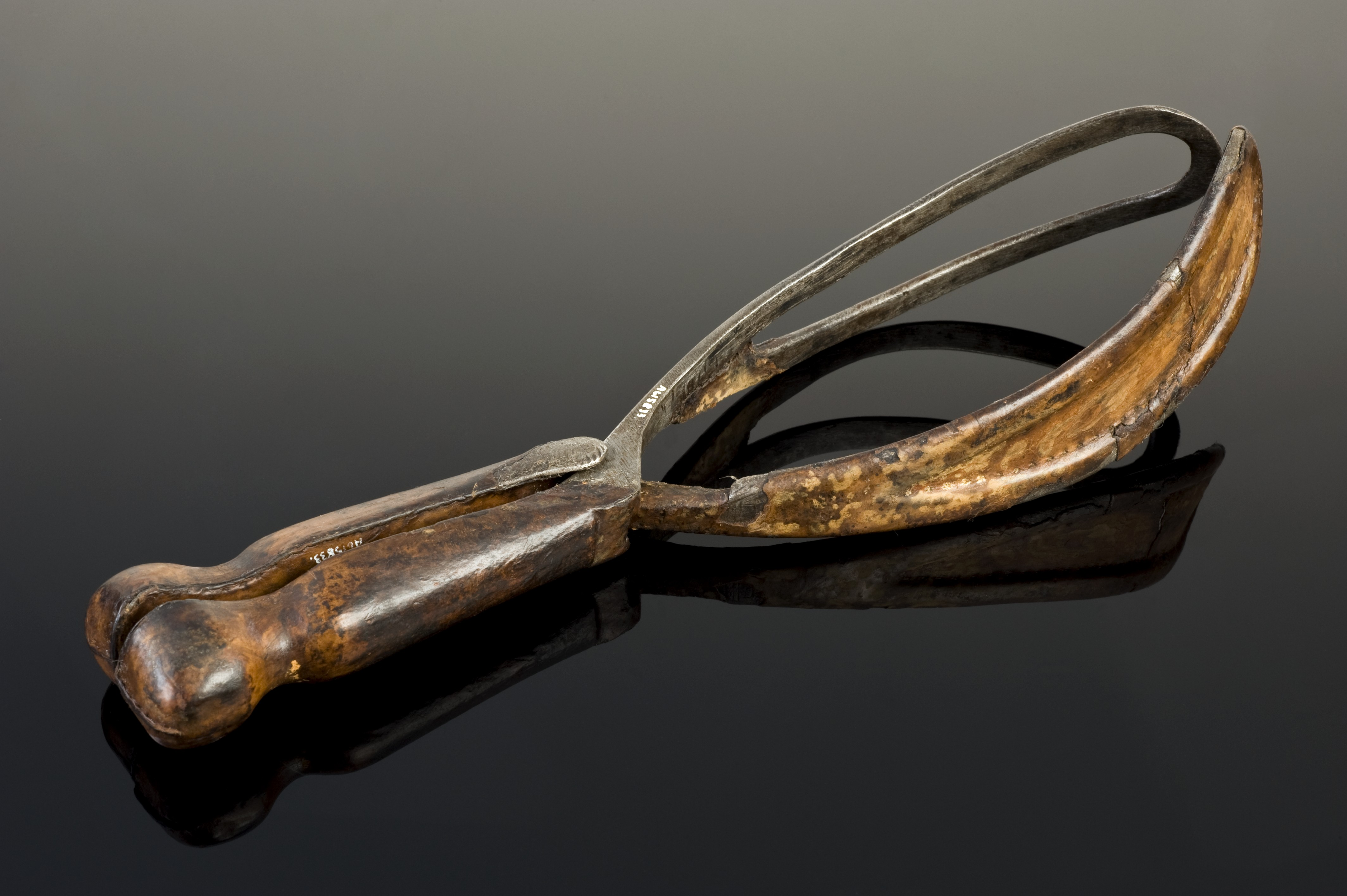 William Smellie (1697-1763) was a Scottish man-midwife who invented these forceps and helped develop obstetrics. The steel blades are covered with leather. They were greased with hog’s lard so the obstetrical forceps could be inserted into the body easily. Obstetrical forceps gripped a baby’s head during difficult labours to help delivery. The leather also prevented the alarming sound of metal clacking together. Smellie suggested changing the leather after use to prevent venereal diseases spreading. Ignoring this advice meant they were impossible to clean properly and the leather became a haven for germs. Puerperal fever, a form of septicaemia, was an often fatal infection contracted by birthing women, so using these forceps was potentially dangerous. maker: Unknown maker Place made: United Kingdom Wellcome Images Keywords: sexually transmitted infection; Pelvis; Obstetrics; Obstetrical Forceps